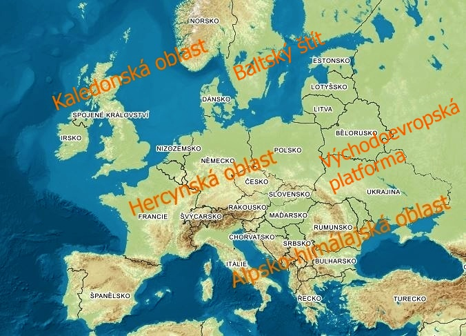 The basic tectonic structures of the Earth are the starting point for dividing the relief of the upper surface of the earth's crust and defining geomorphological units of the highest orders. The georelief of Europe was divided into geomorphological areas: the Alpine-Himalayan region, the Baltic shield, the Caledonian region, the East European platform and the Hercyn region. An overview of the layout on the European continent is illustrated by Czech labels in photography. These are the geomorphological units of the European first order, termed the first-level geomorphological system in Czechia. Geomorphological areas are subdivided into sub-areas (in the Czech Republic geomorphological subsystem of the second level) and a lower geomorphological units. From the European system of the 4th order, the third level of geomorphological units in the Czech Republic with the general name of the province is derived (Bohemian Highland, Western Carpathians, West Pannonian Basin and from the European 3rd Order "Central European Lowland"). Location: Europe, created for Wikimedia Commons viz Category:Geomorphological units (Czechia)